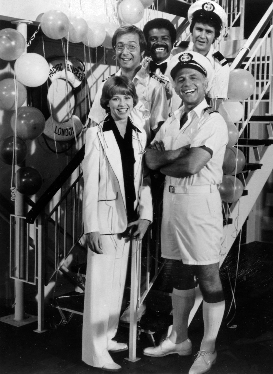 Publicity photo of cast for The Love Boat series premiere. Shown are Julie (Lauren Tewes), Captain Stubing (Gavin MacLeod), Doctor Bricker (Bernie Kopell), Isaac (Ted Lange), and Gopher (Fred Grandy). This photo was produced prior to 1978 and has no copyright markings.